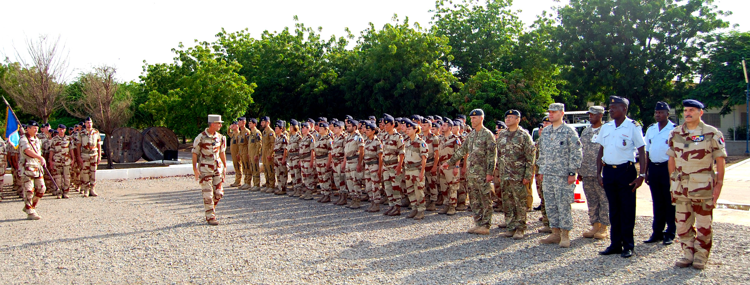 French and Chad military participate in a flag ceremony to commemorate the launch of Operation Barkhane. Operation Barkhane is an anti-terrorist operation in Africa's Sahel region beginning in July 2014. It consists of a 3,000-strong French force, which will be permanent and headquartered in N’Djamena, Chad. The operation has been designed with five countries, and former French colonies, that span the Sahel: Burkina Faso, Chad, Mali, Mauritania and Niger.